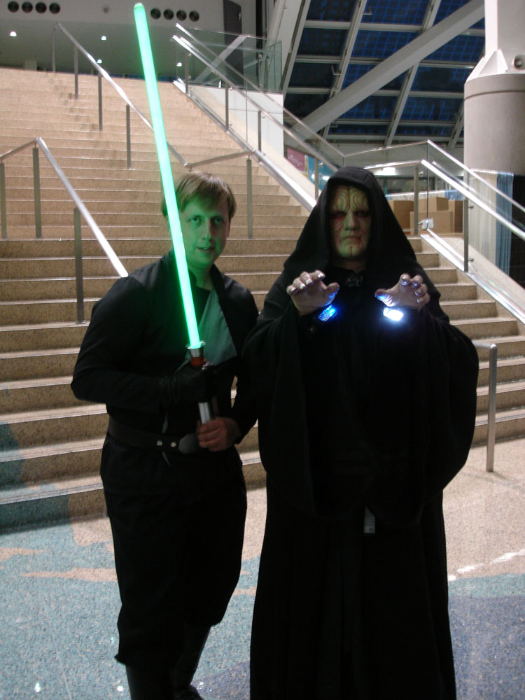 Star Wars Celebration IV - Luke Skywalker, Emporer Palpatine